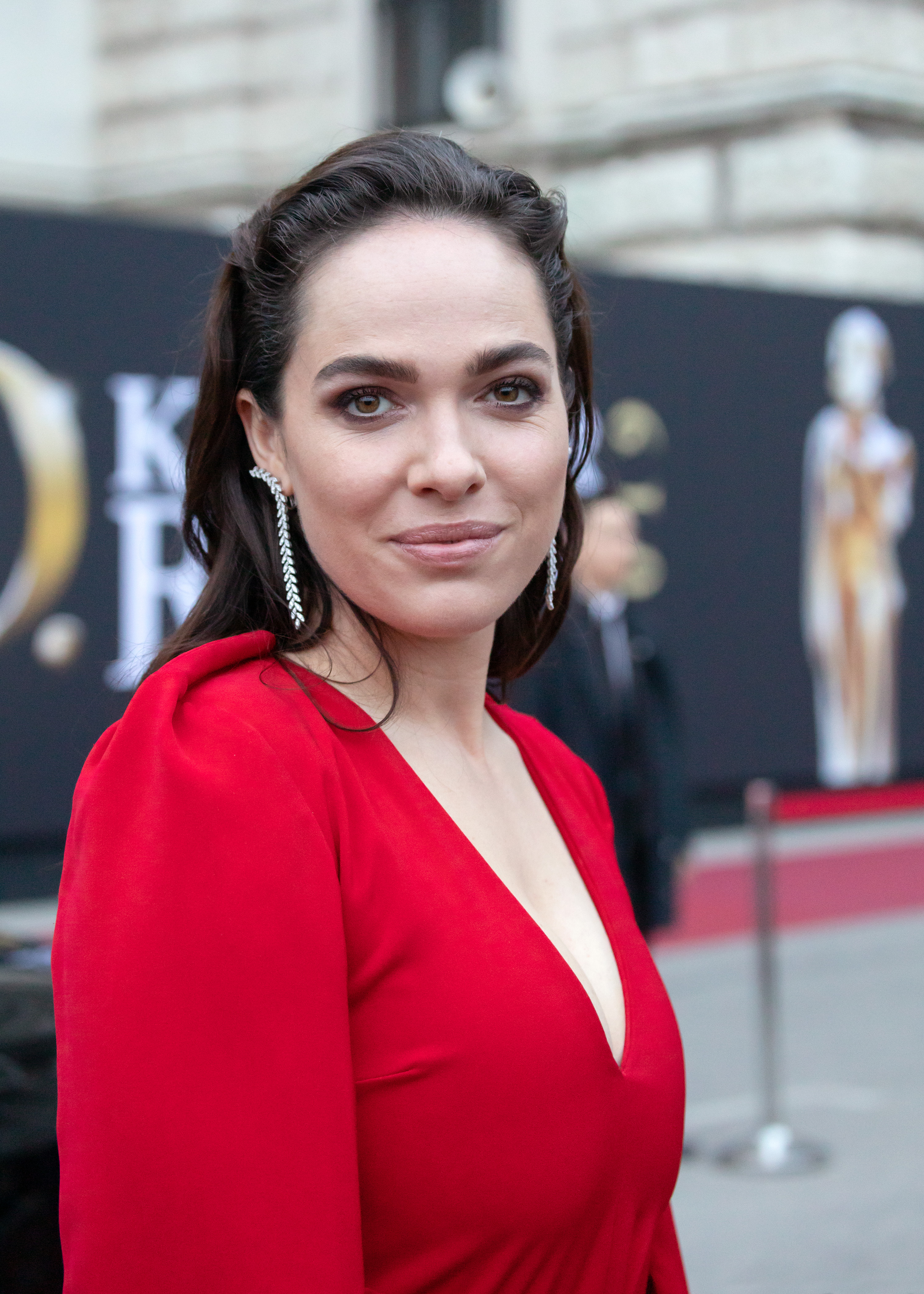 Verena Altenberger on the red carpet of the Romy TV awards 2019 at Hofburg Palace in Vienna, Austria.